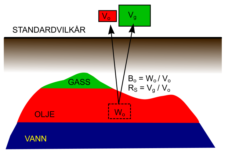 Illustrates definition of formation volume factor for oil, together with the gas-oil ratio, with Norwegian text